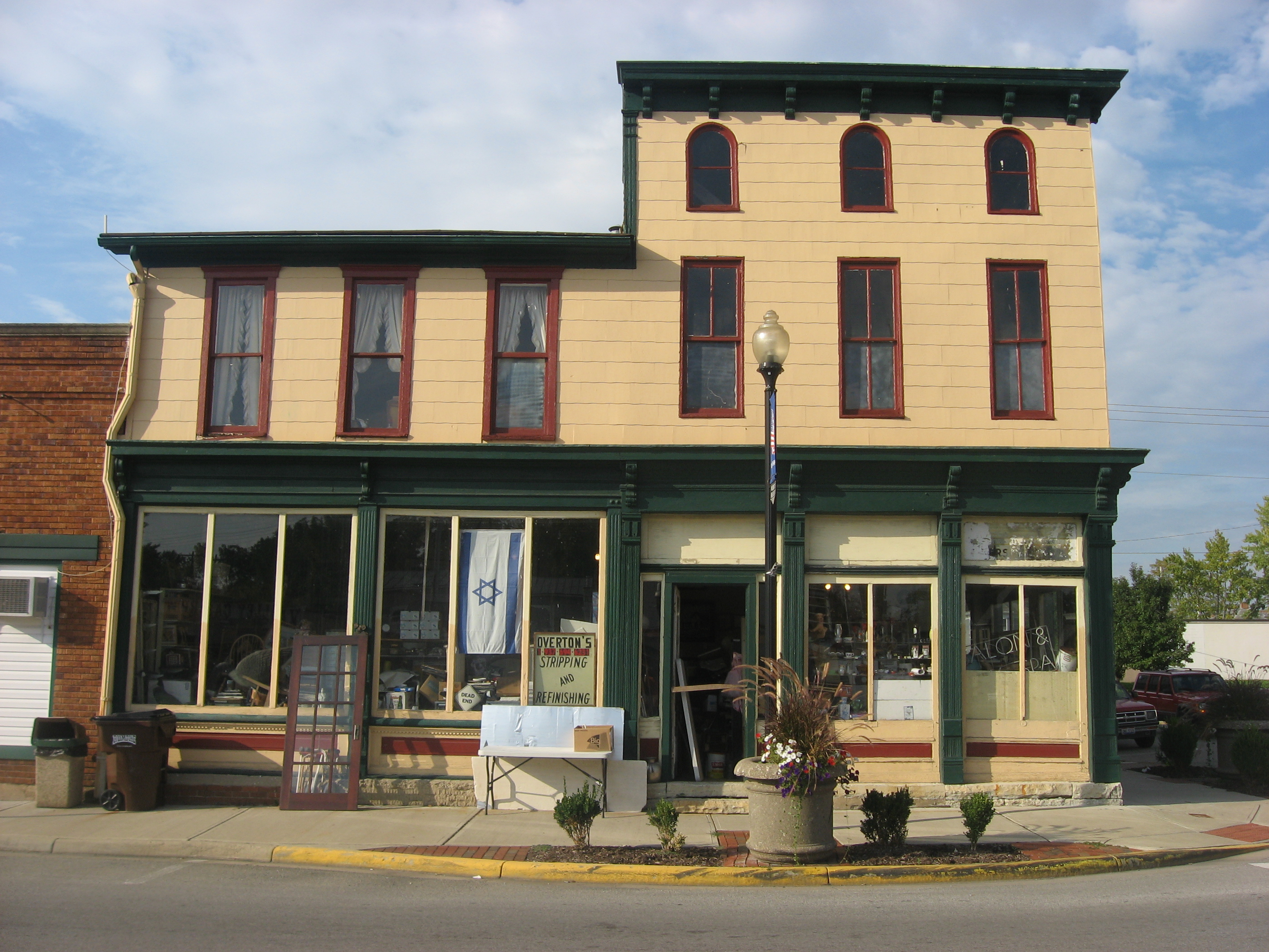 Front of the Lange Hotel, located at 1 W. Dayton Street (U.S. Route 35) in West Alexandria, Ohio, United States. Built in 1887, it is listed on the National Register of Historic Places.